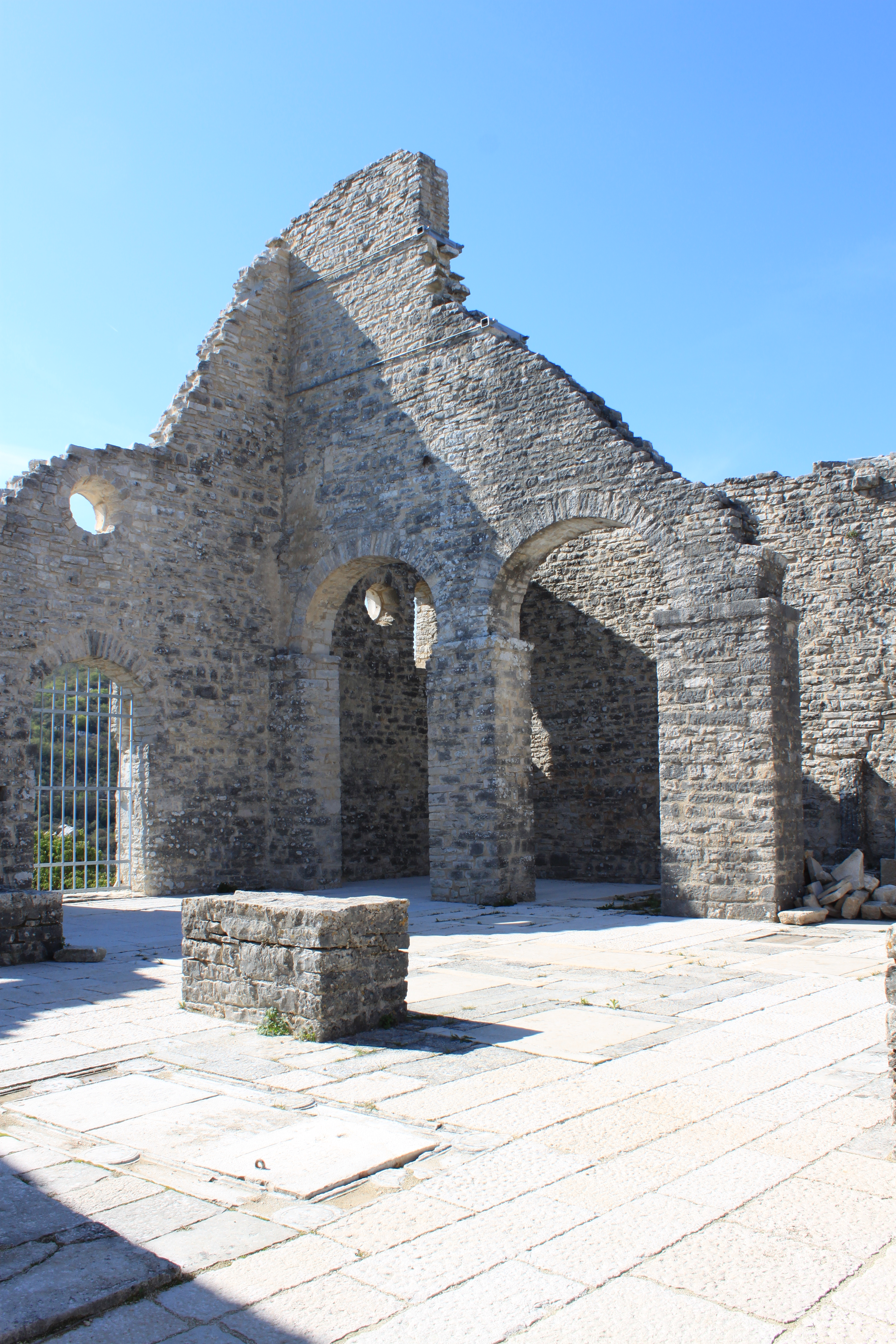 St. Sophia Church ruin, Dvigrad, Croatia. Inner perimeter.